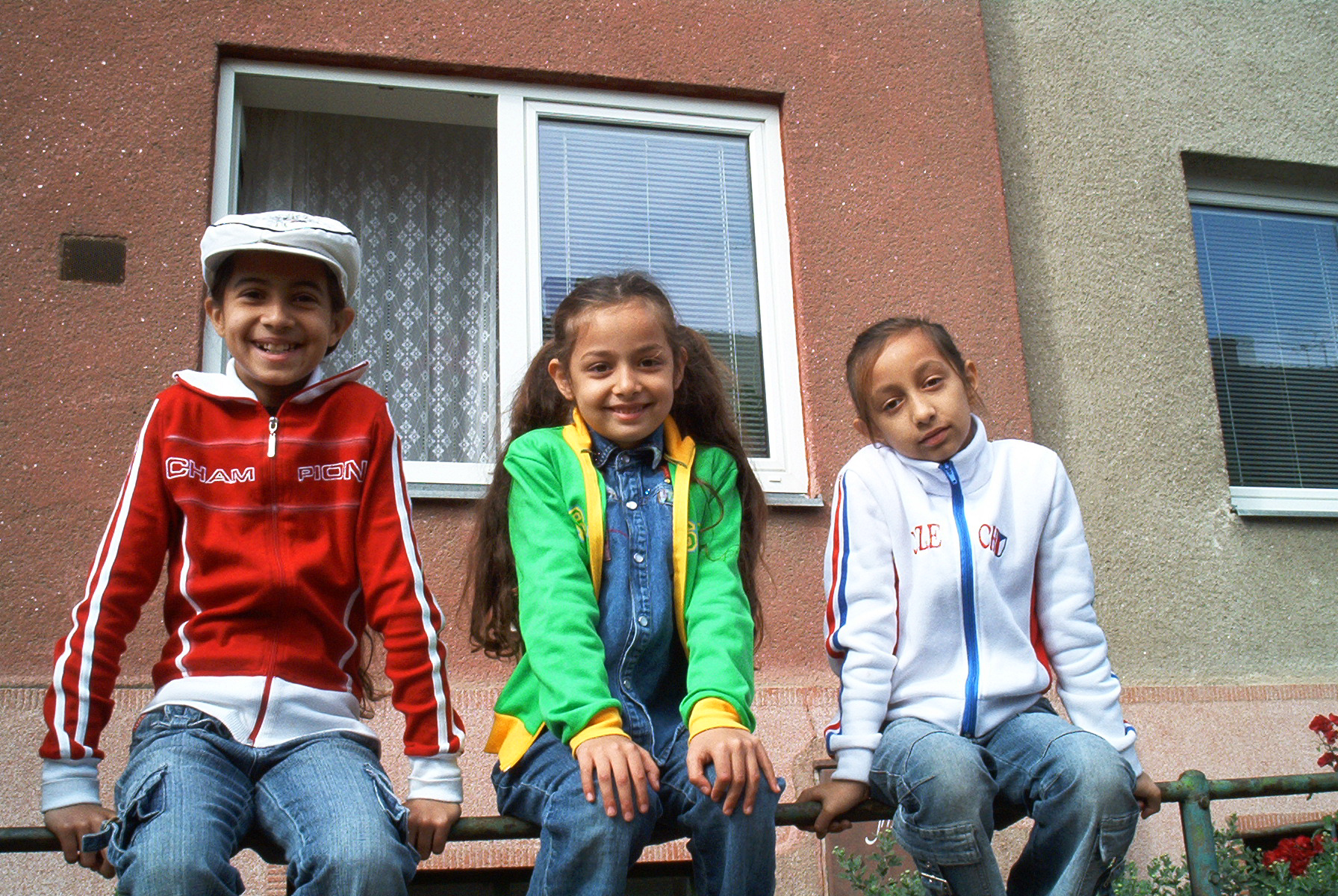 Three Romany children sitting in front of a building